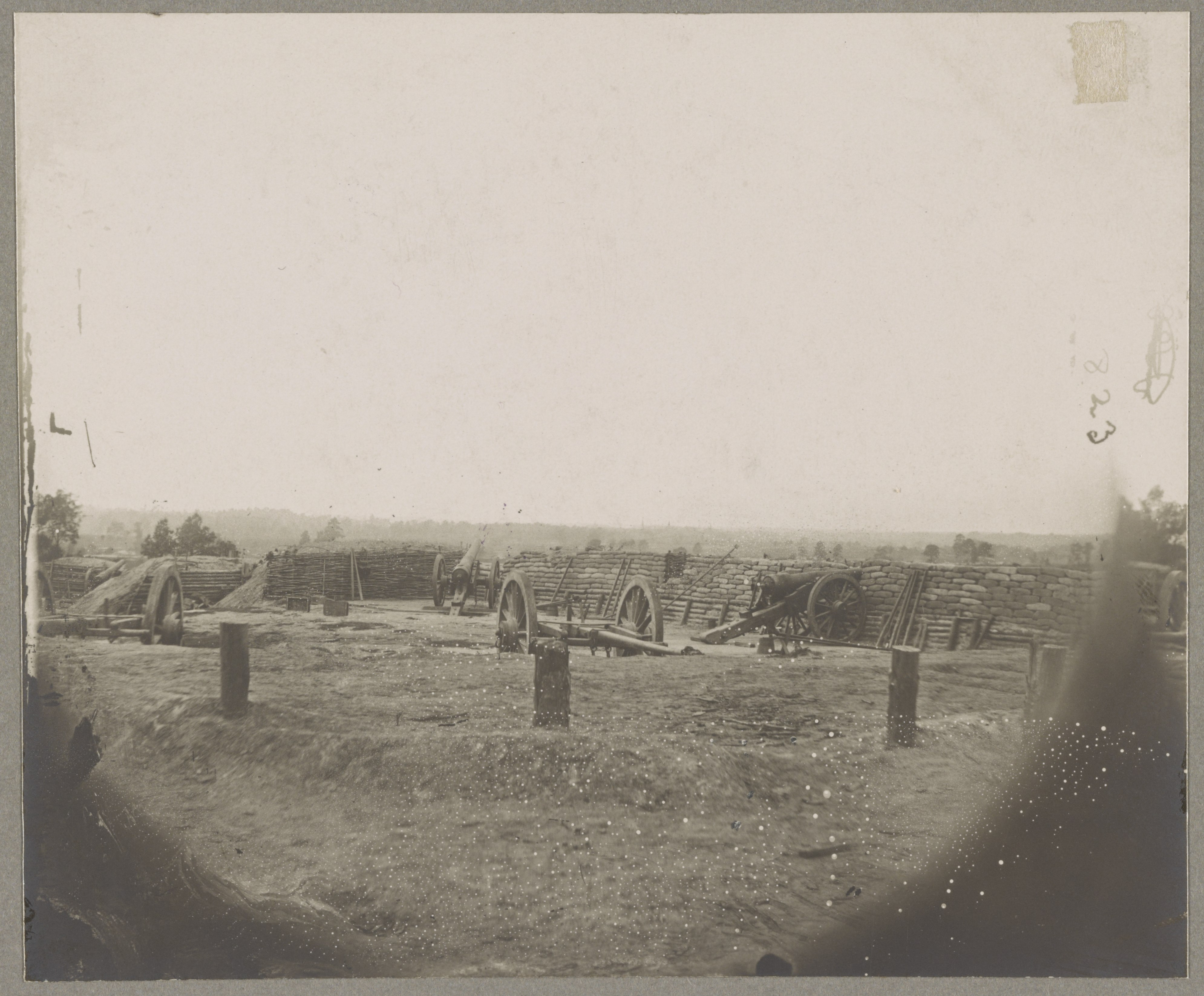 Title: Petersburg, Va., battery on outer line Confederate entrenchment capt. June 15, 1865 Physical description: 1 photographic print on card mount : gelatin silver. Notes: Purchase : L.C. Handy, Washington, D.C. ; 1905 Nov. 25 (DLC/PP-1905:42760A); No. 823.; Title from item.